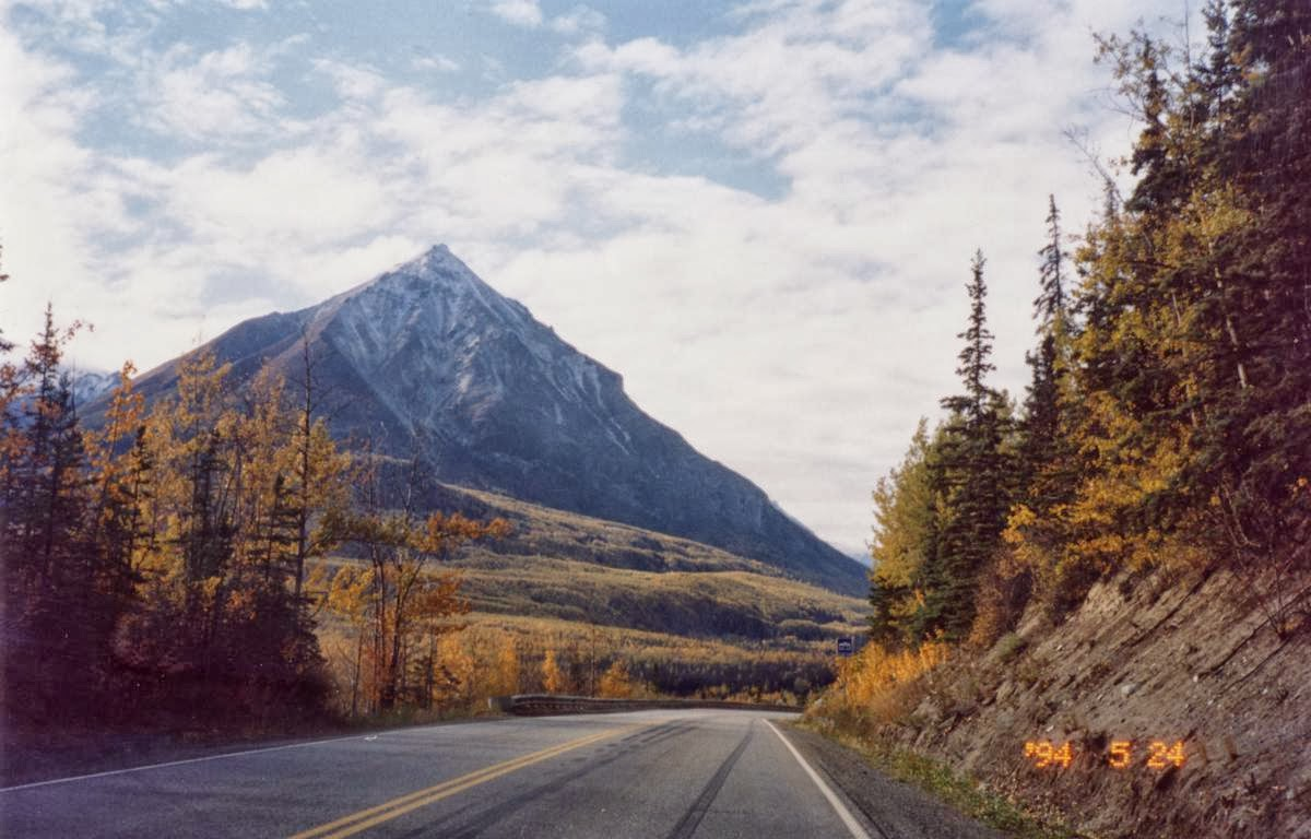 Glenn Highway